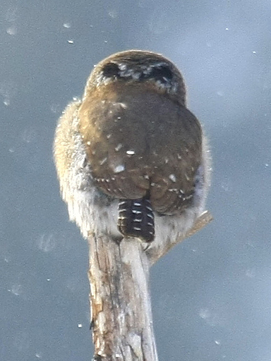 Northern Pygmy Owl Glaucidium californicum, showing fake eyes on the back of the head. Verdi Sierra Pines, California, USA.